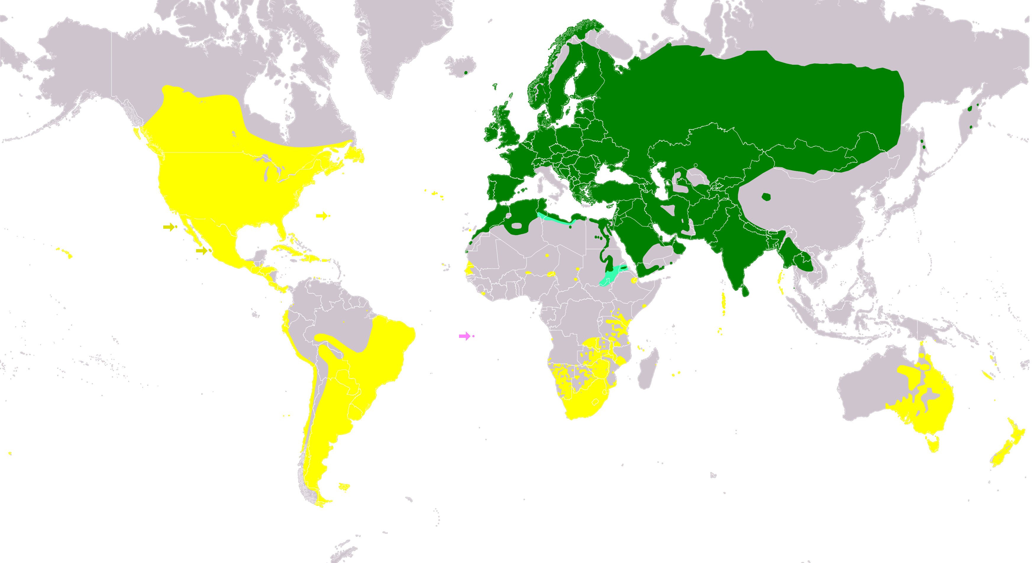 Distribution map of House Sparrow (Passer domesticus) according to IUCN version 2019.3; key: Legend: Extant, resident (#008000), Extant, non-breeding (#38ffaf), Extant & Introduced (resident) (#FFFF00), Possibly Extant & Introduced (resident) (#DFDF00), Probably extinct & Introduced (#FF80FF)